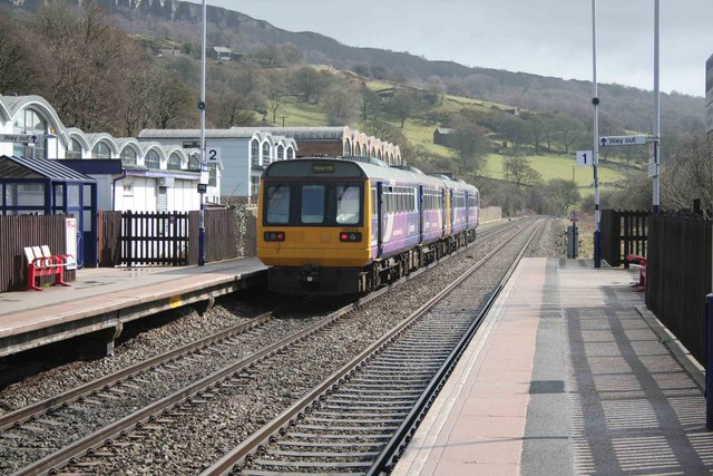 Hathersage railway station. This is a Manchester to Sheffield stopping service about to depart and head east.